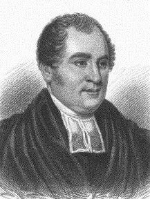 Portrait of William Bengo Collyer (1782–1854), English Congregational minister.